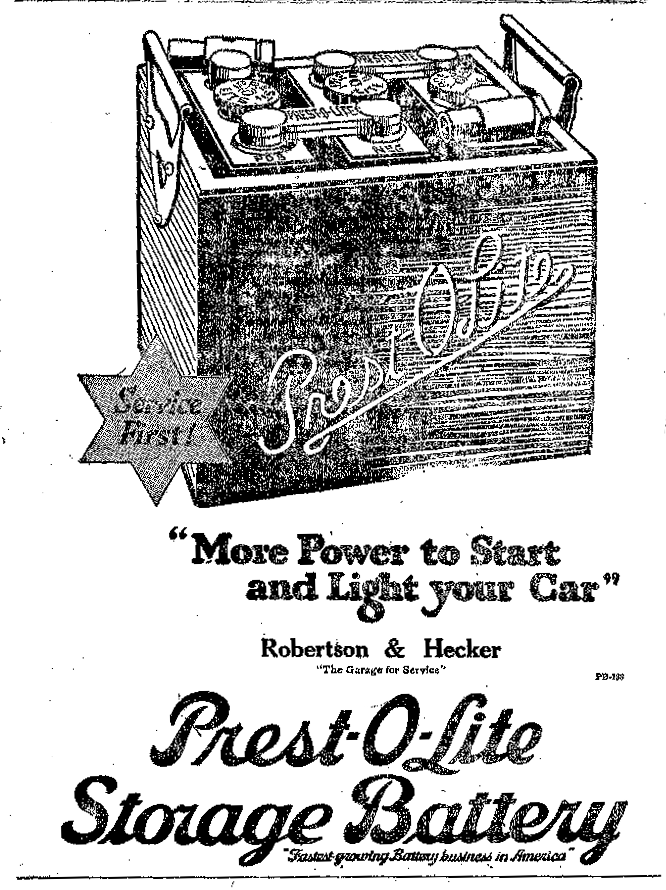 Canadian newspaper ad for Presto Life Storage batteries.